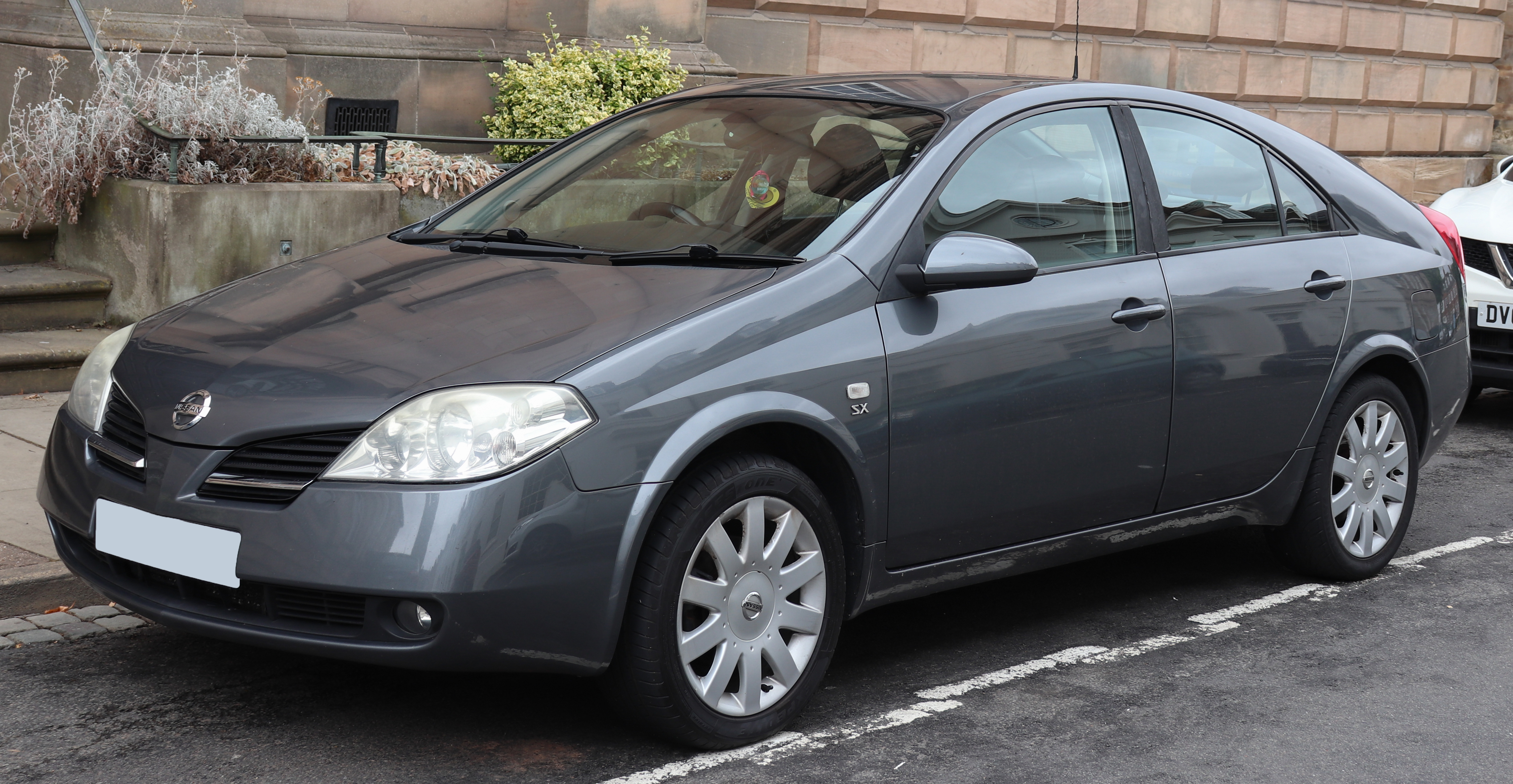 2005 Nissan Primera SX DCi 2.2 Front Taken in Warwick